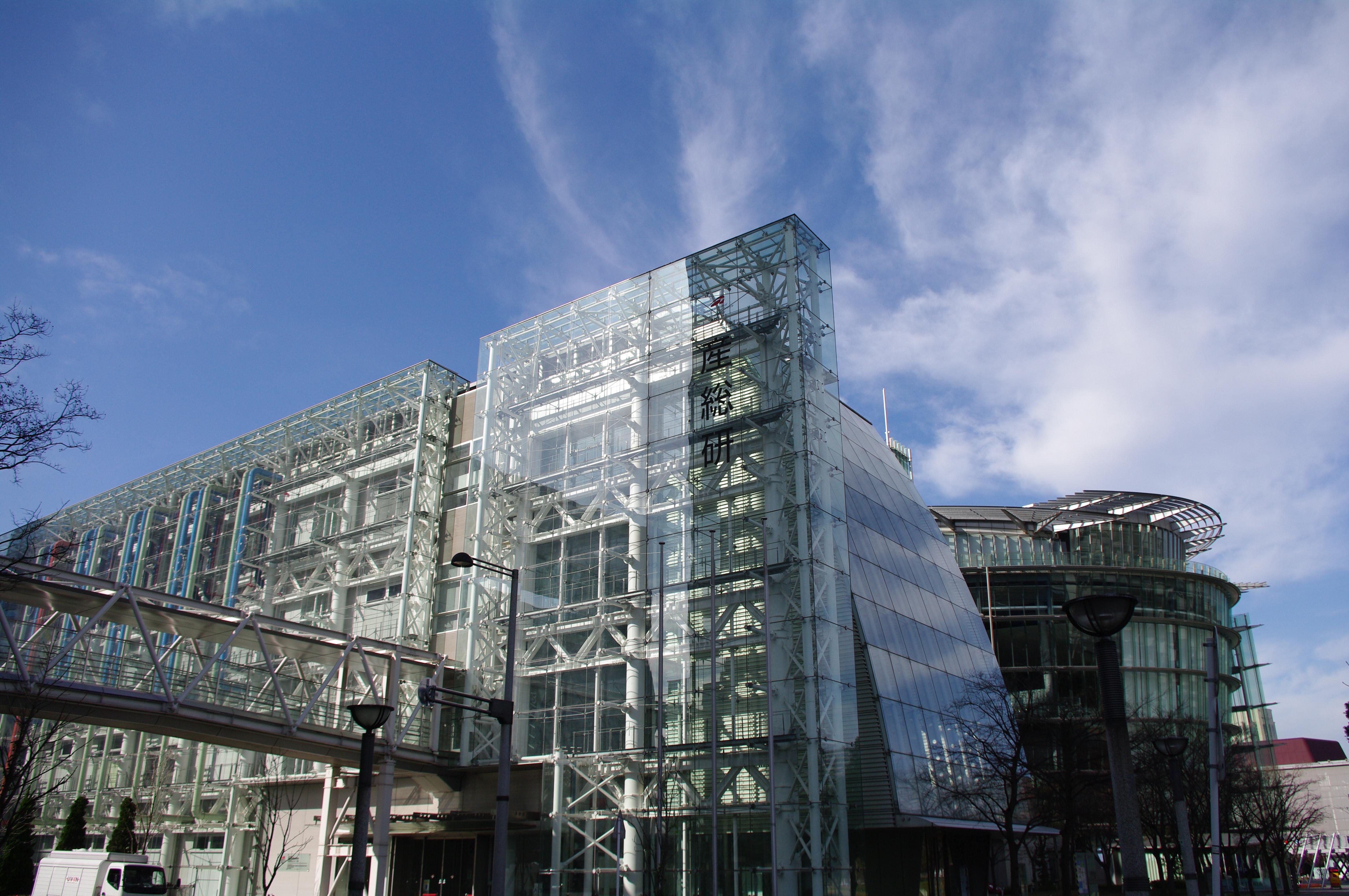 AIST Tokyo Waterfront, National Institute of Advanced Industrial Science and Technology, 2-3-26 Aomi, Koto-ku, Tokyo 135-0064, Japan. 独立行政法人 産業技術総合研究所 臨海副都心センター。